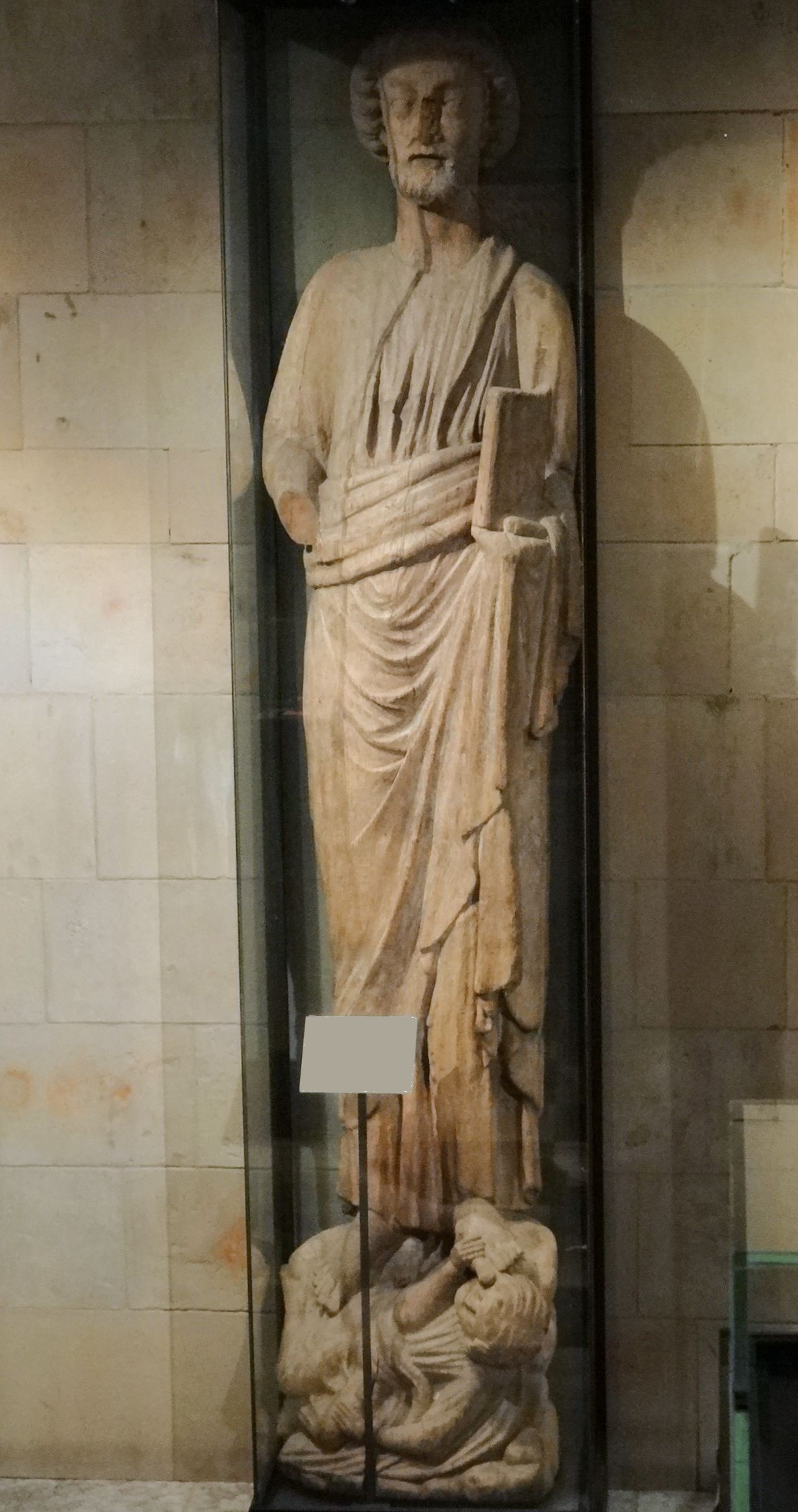 The Barleygod from Norra Vånga, Sweden, is a medieval statue of a saint on display at Västergötlands Museum, Skara.